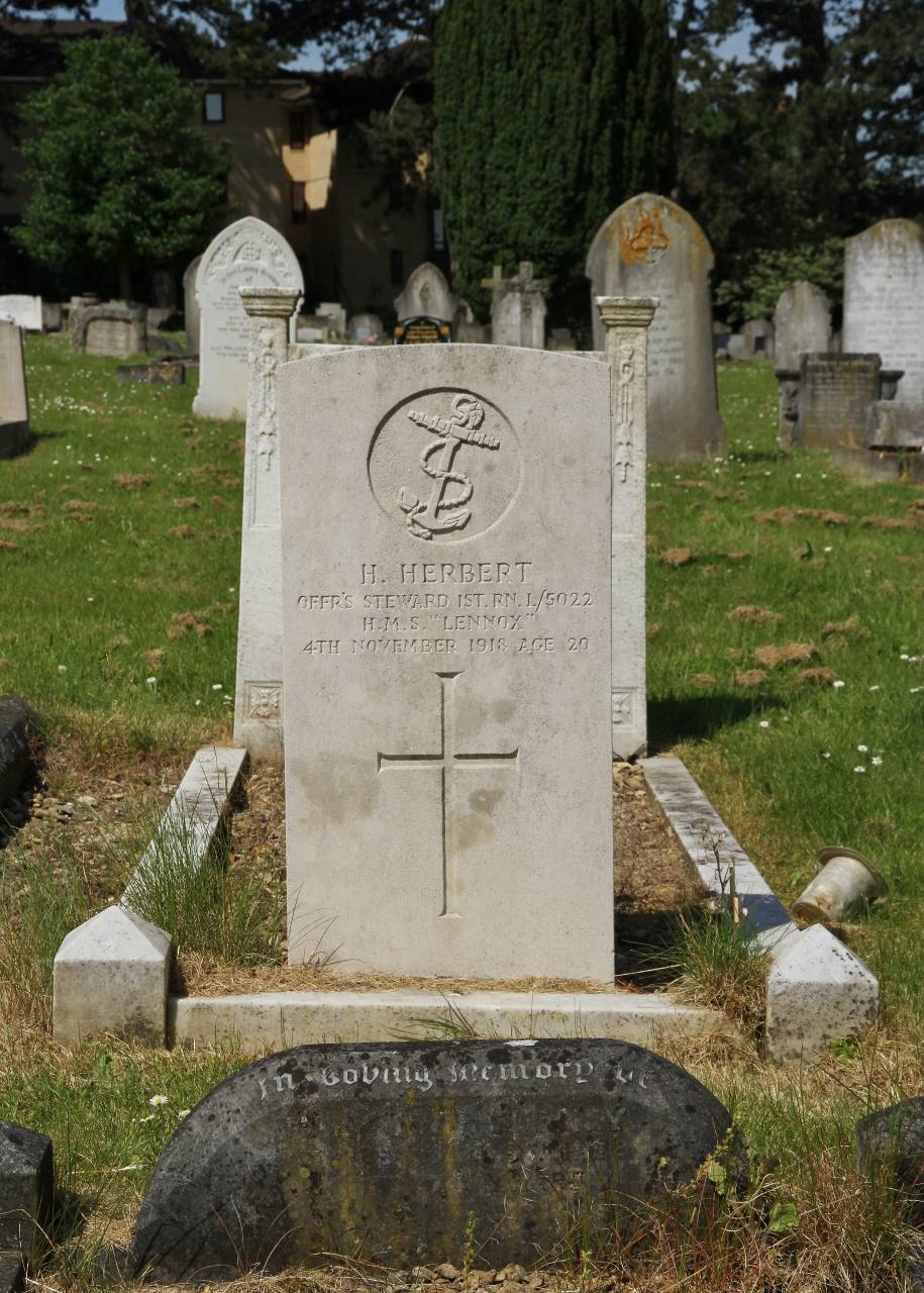 Commonwealth War Graves Commission headstone in Rose Hill Cemetery, Cowley, Oxfordshire to H Herbert, Officer's Steward, 1st Class, of HMS "Lennox", who died 4 November 1918